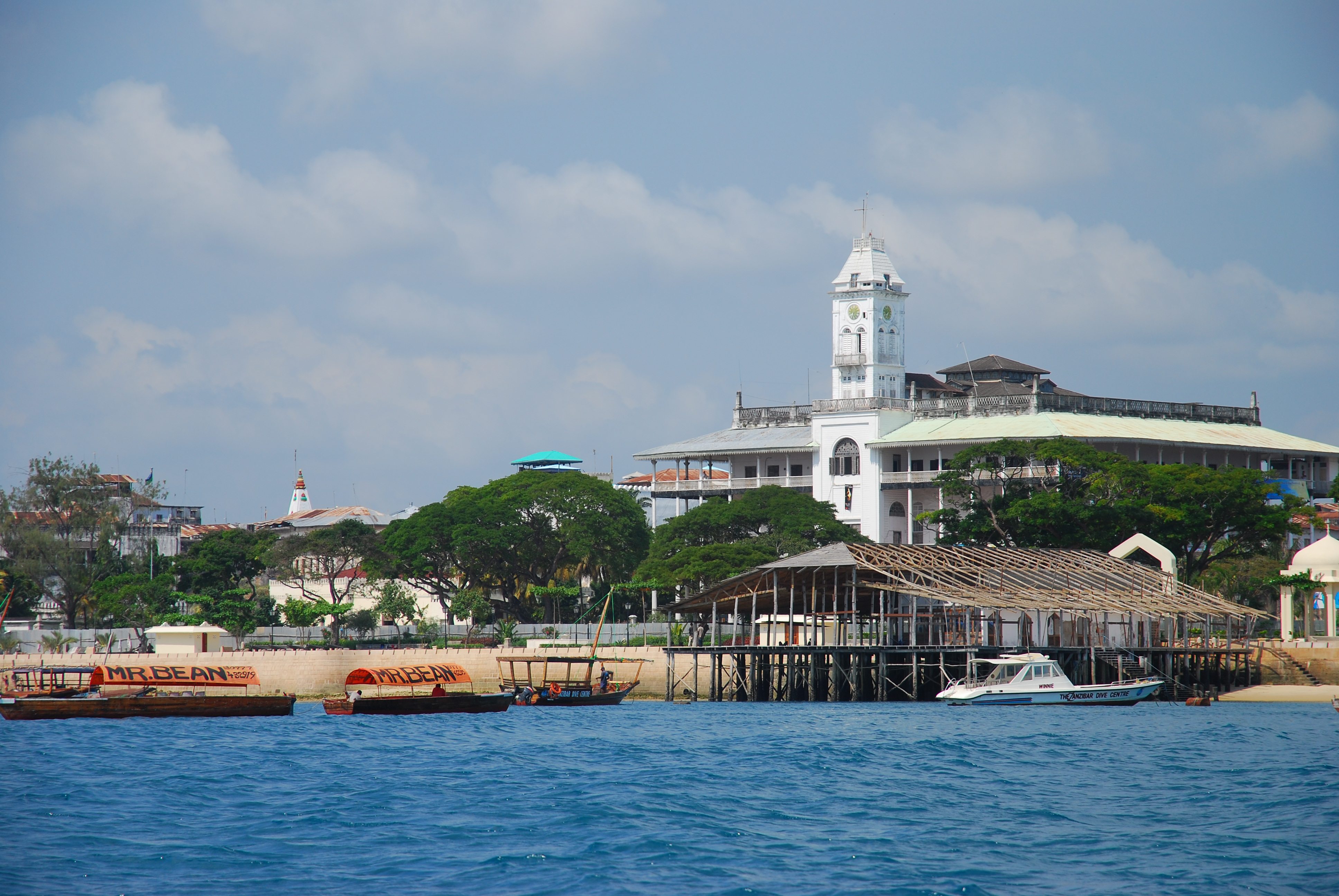 House of Wonders Zanzibar Coast